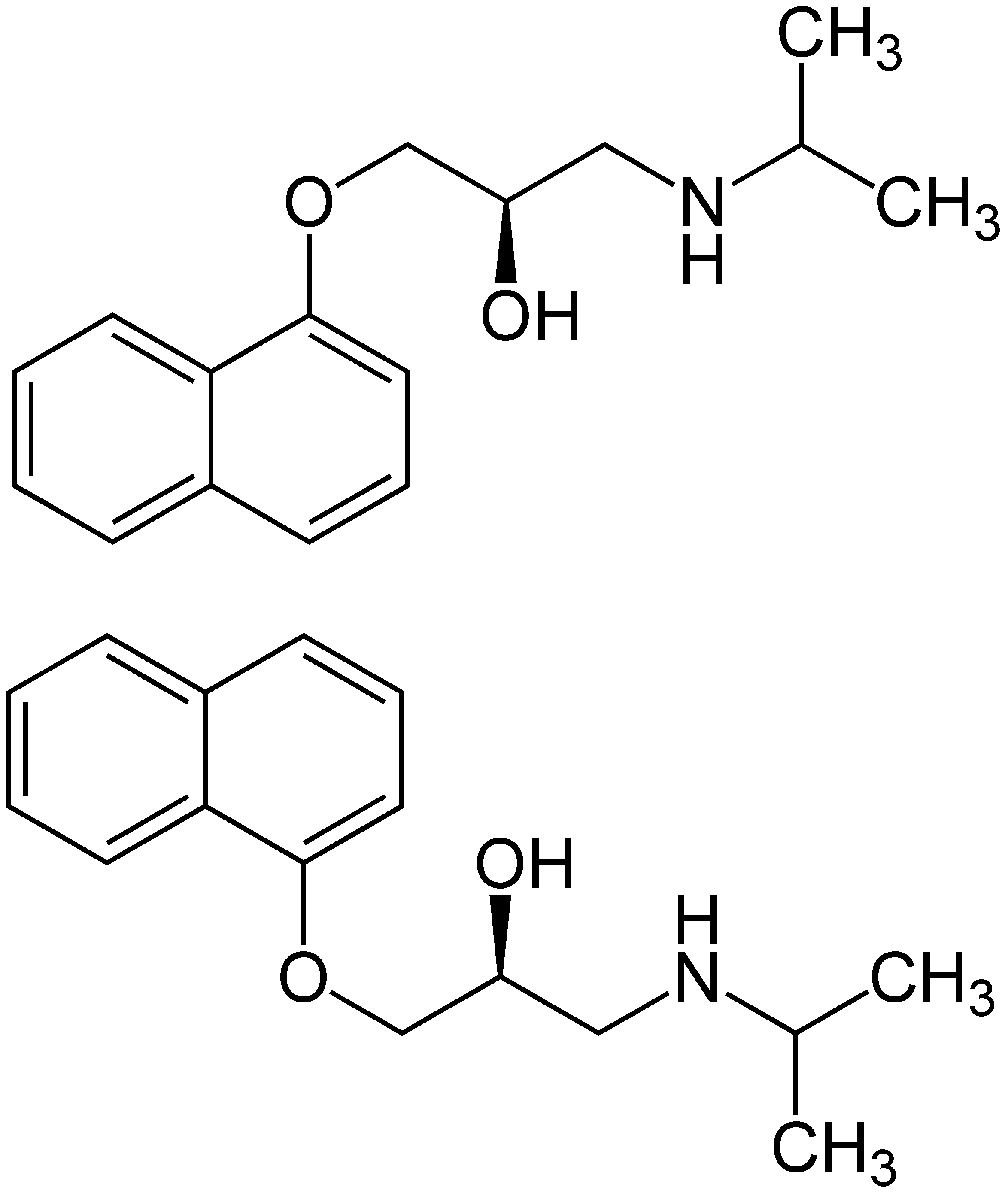 Structural formulae of propranolol enantiomers